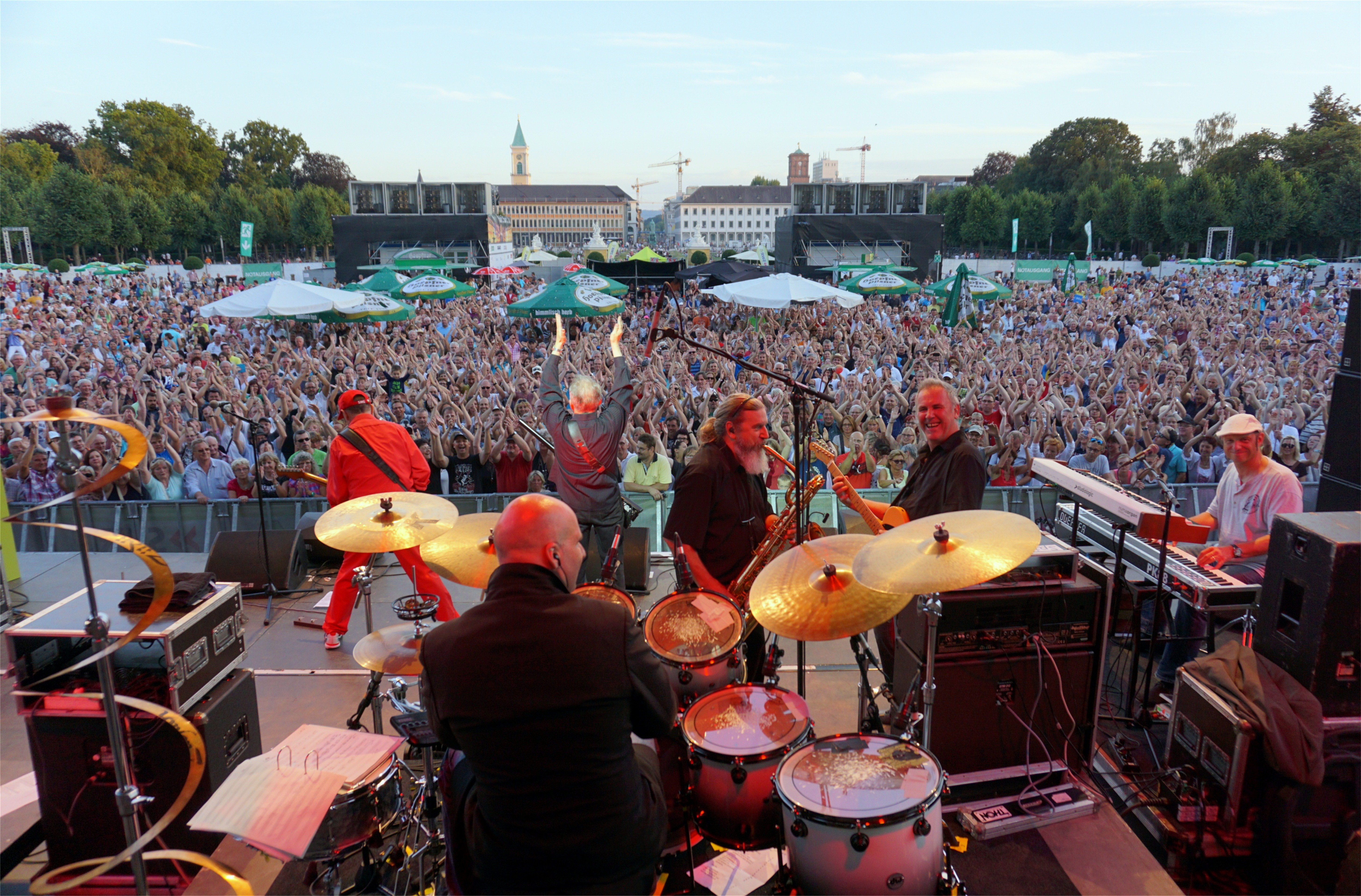 Spider Murphy Gang at SWR4 Sommernacht 2016 Karlsruhe, Germany